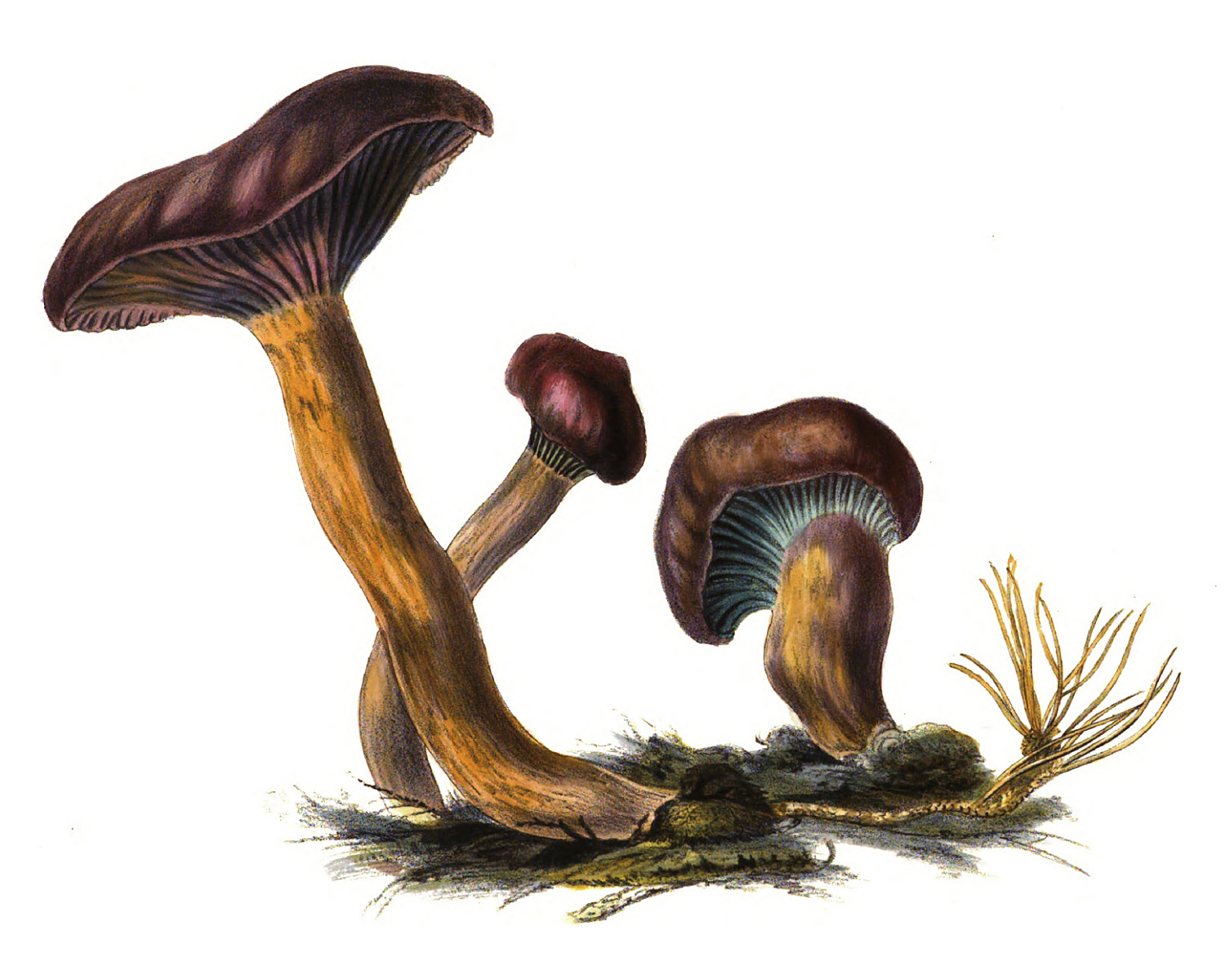 Illustration of Copper Spike (Chroogomphus rutilus)